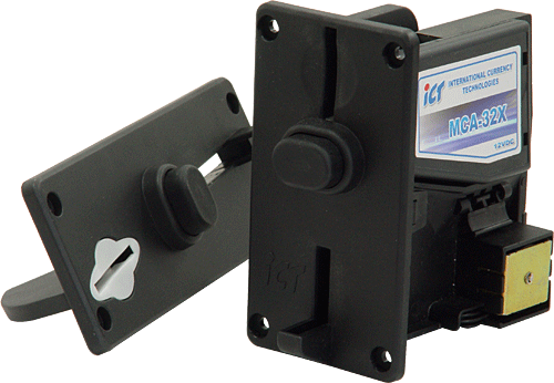 Validator - device (Cash registers) for ATM and for other bank machines